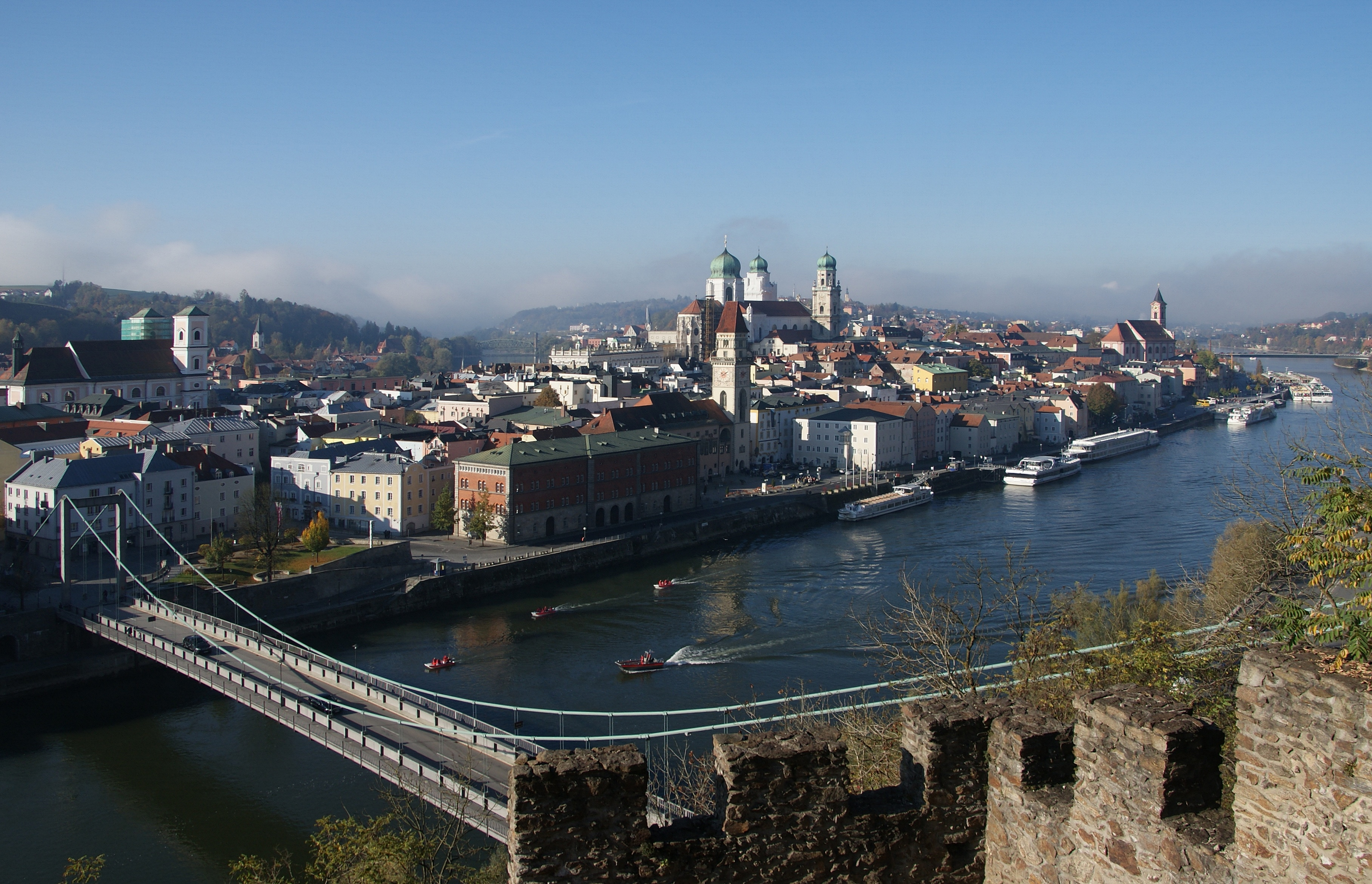 The Old Town of Passau at the Danube